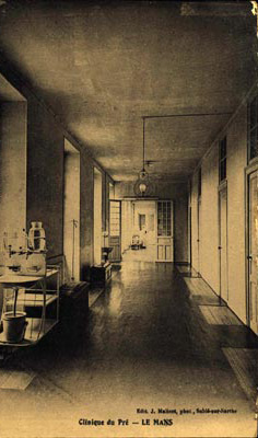 Ancienne Clinique du Pré (rue Sieyès)